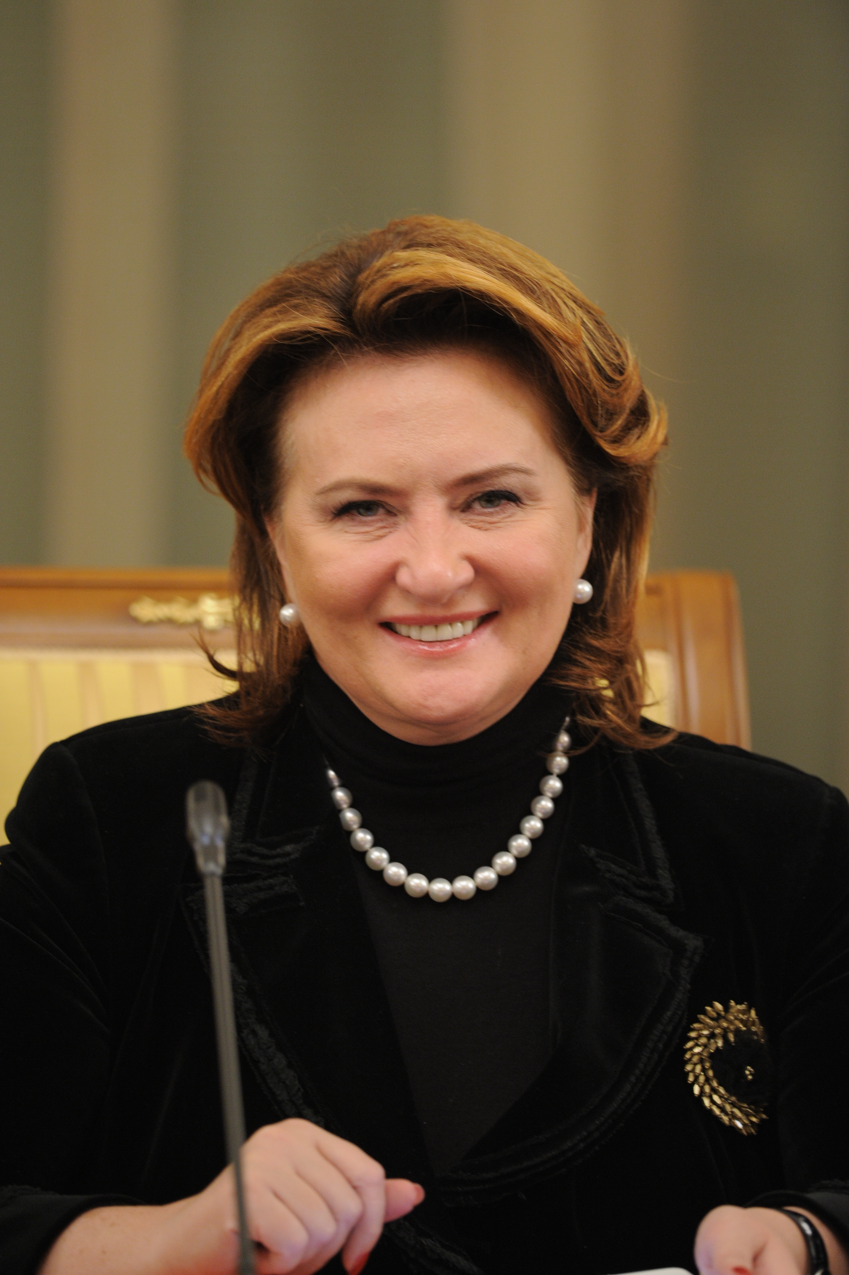 Minister of Agriculture of the Russian Federation Yelena Skrynnik at a government meeting.